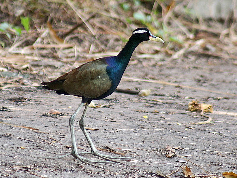 Bronze-winged Jacana Metopidius indicus in Kolkata, West Bengal, India.